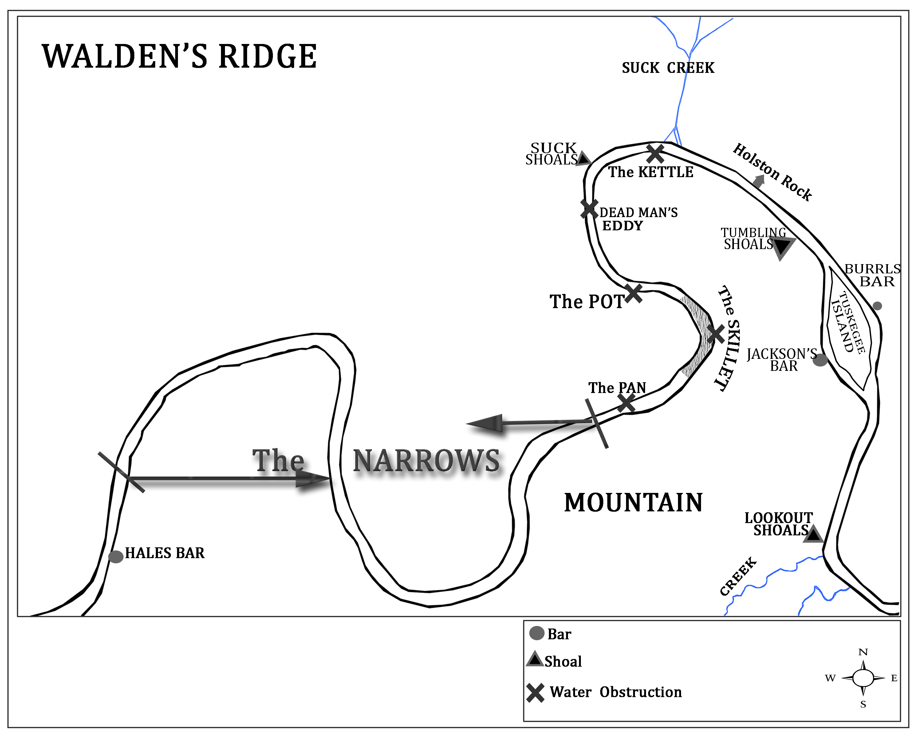 Map of the hazards of th Tennessee River Gorge (aka Cash Canyon or the Suck) prior to the closing of the locks of the Hales Bar Dam in 1913